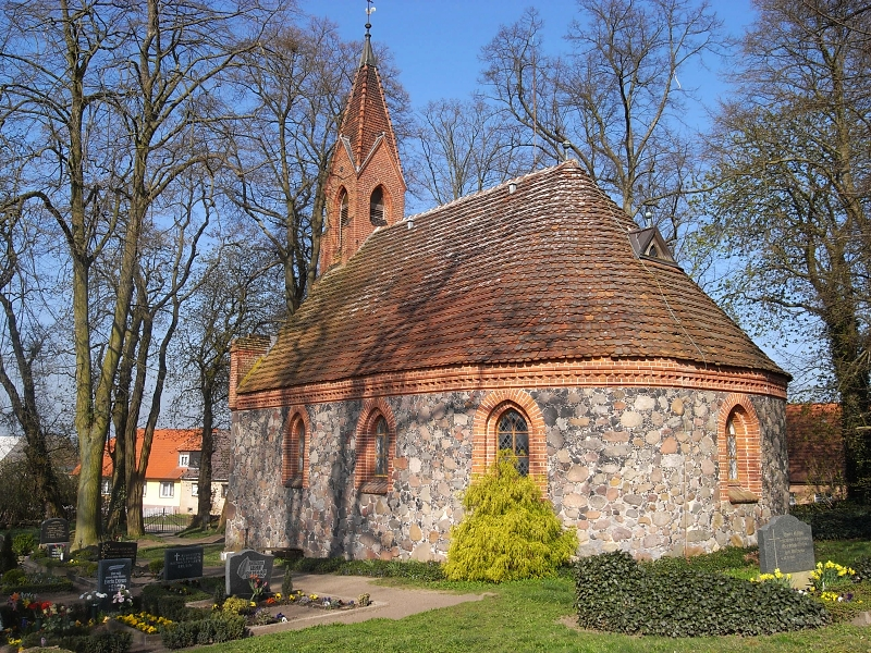 Church in Lexow, district Güstrow, Mecklenburg-Vorpommern, Germany